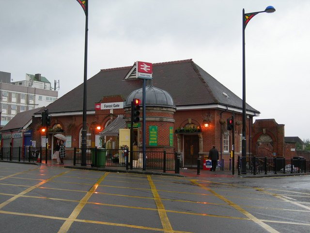 Forest Gate Station